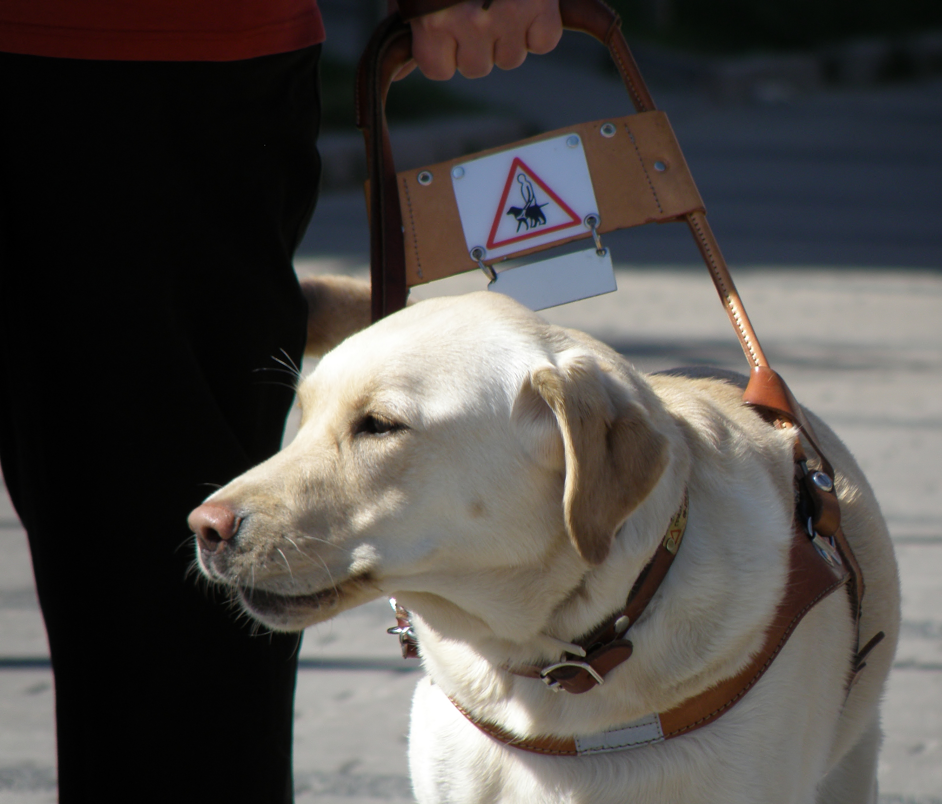 Assistance dog for the visually impaired